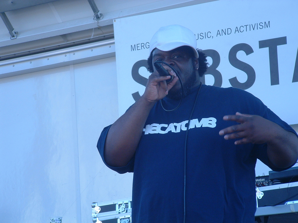 Minneapolis-based Carnage the Executioner beatboxing live.